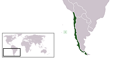 Location of Robinson Crusoe Island, Juan Fernandez Archipelago, Chile